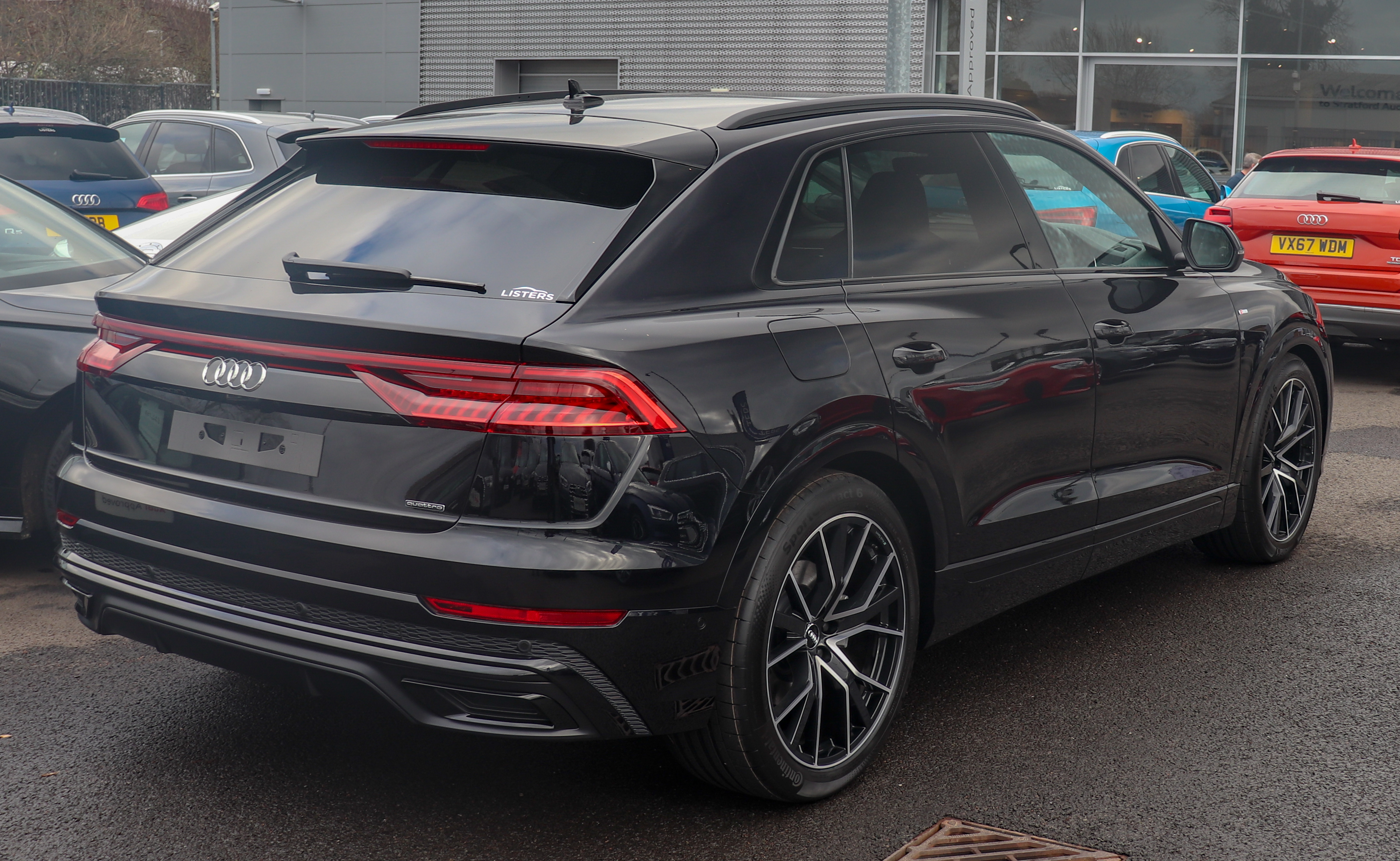 2019 Audi Q8 Rear Taken in Stratford-upon-Avon